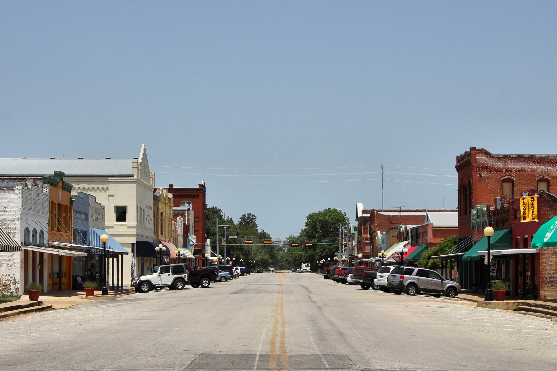 Downtown Smithville, Texas, United States.